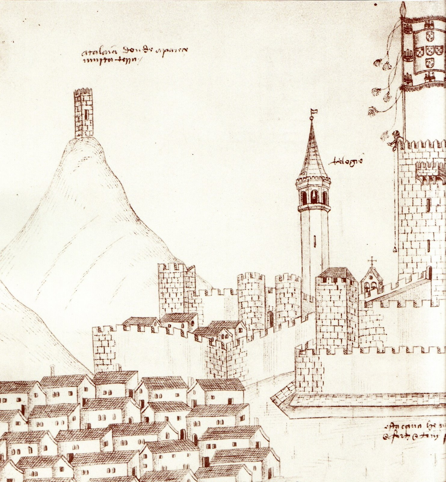 Drawing of the Castle of Olivença (Olivenza) on the Portuguese-Spanish border.